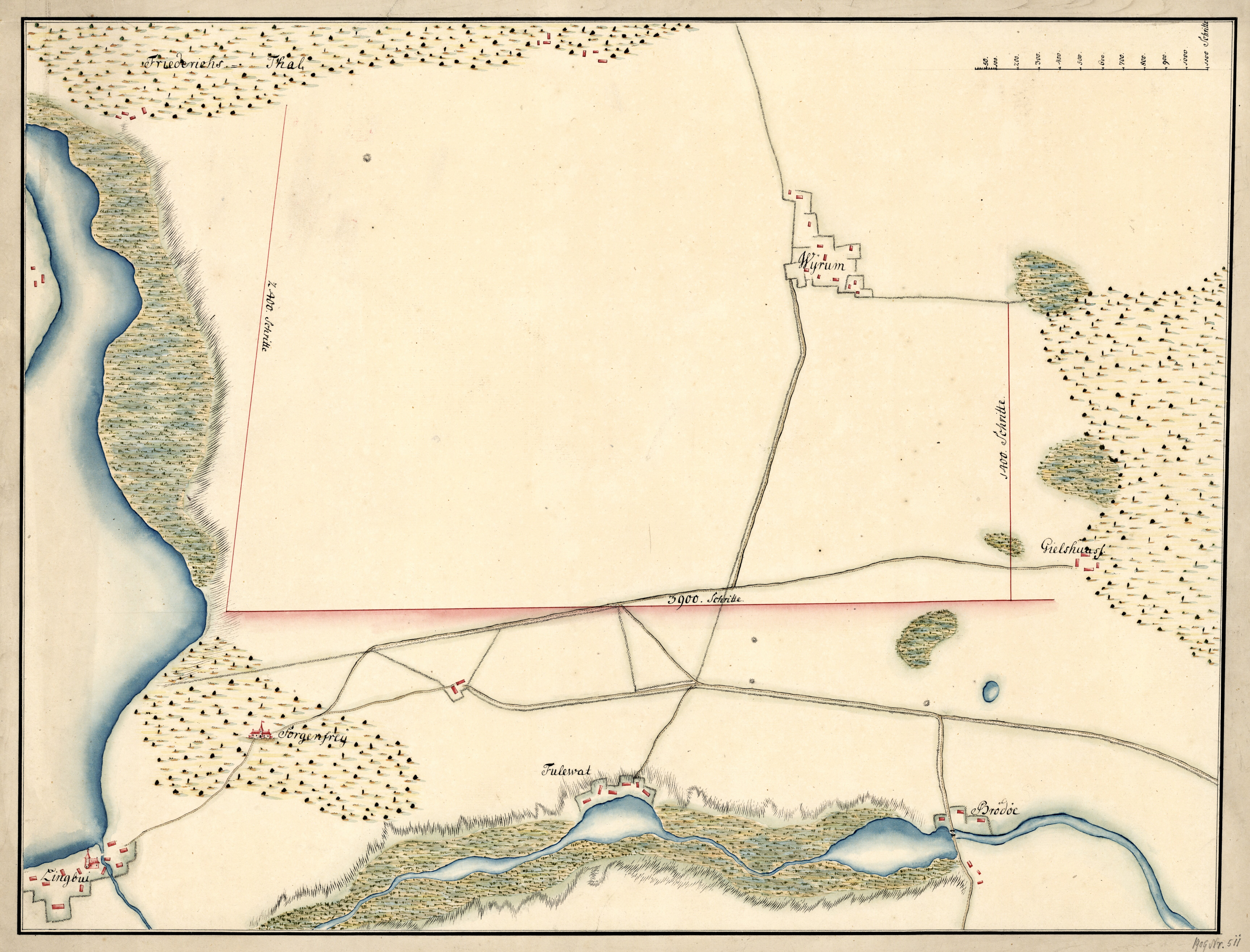 Map of an area north of Copenhagen with localities such as Sorgenfri Palace, Fuglevad, Brede and Virum.